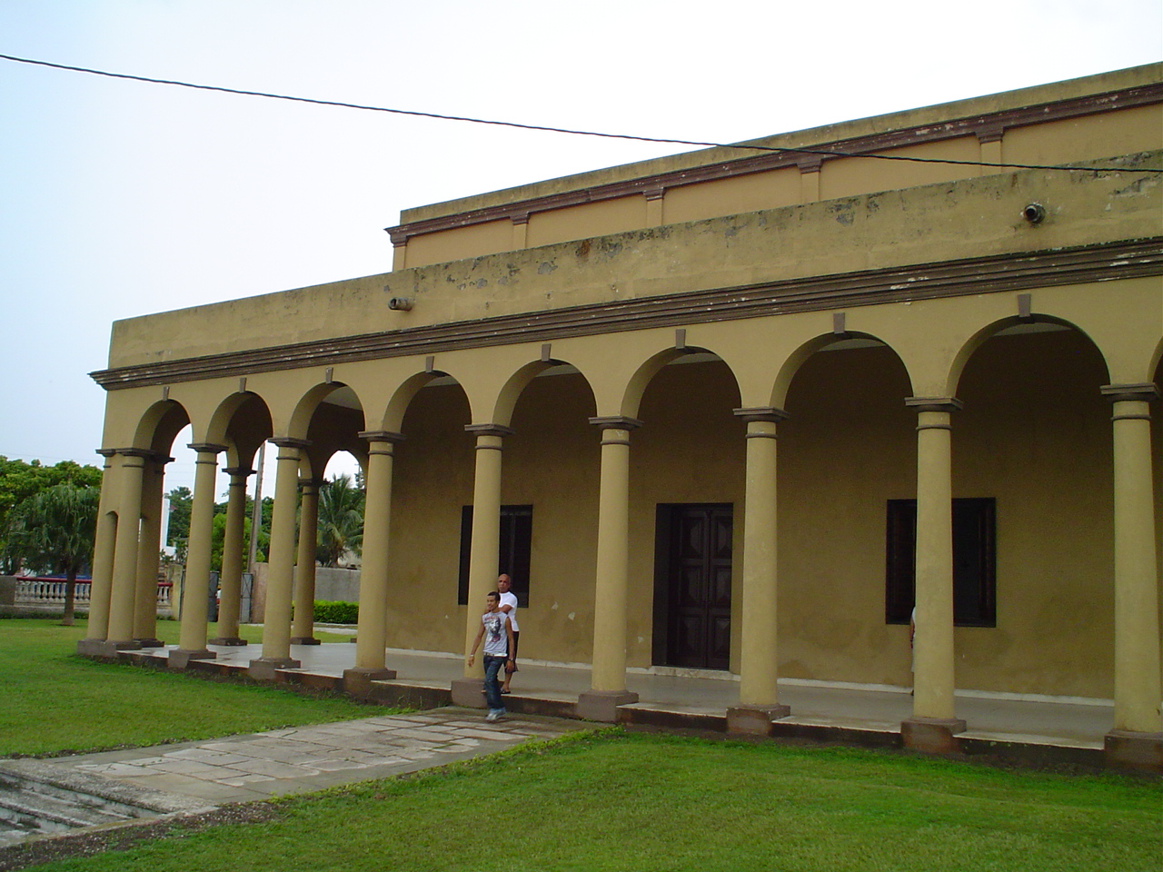 I took the Picture in August 2007